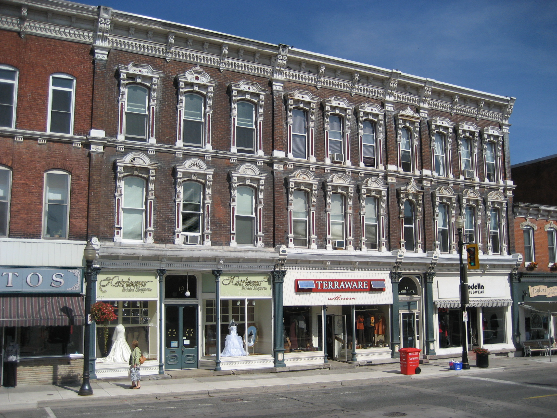 King Street West, Dundas, Hamilton, Canada.